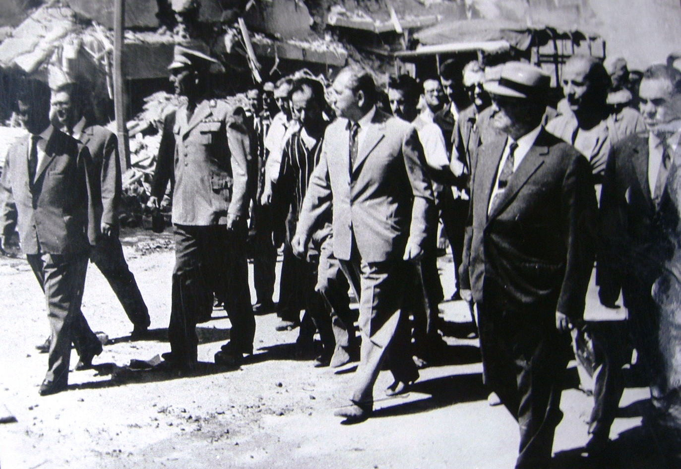 Skopje earthquake: The second day after the earthquake, July 27, 1963, Josip Broz Tito visiting Skopje with Yugoslav delegation heads, including: Aleksandar Rankovic, Ivan Goshnjak, Secretary of the Central Committee of CPM Krste Crvenkovski, Lieutenant General Ante Banjina, and others. This media file is produced by Wikipedian in Residence in Category:Wikipedian in Residence at DARM in 2016.